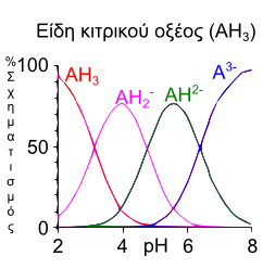 citric acid speciation